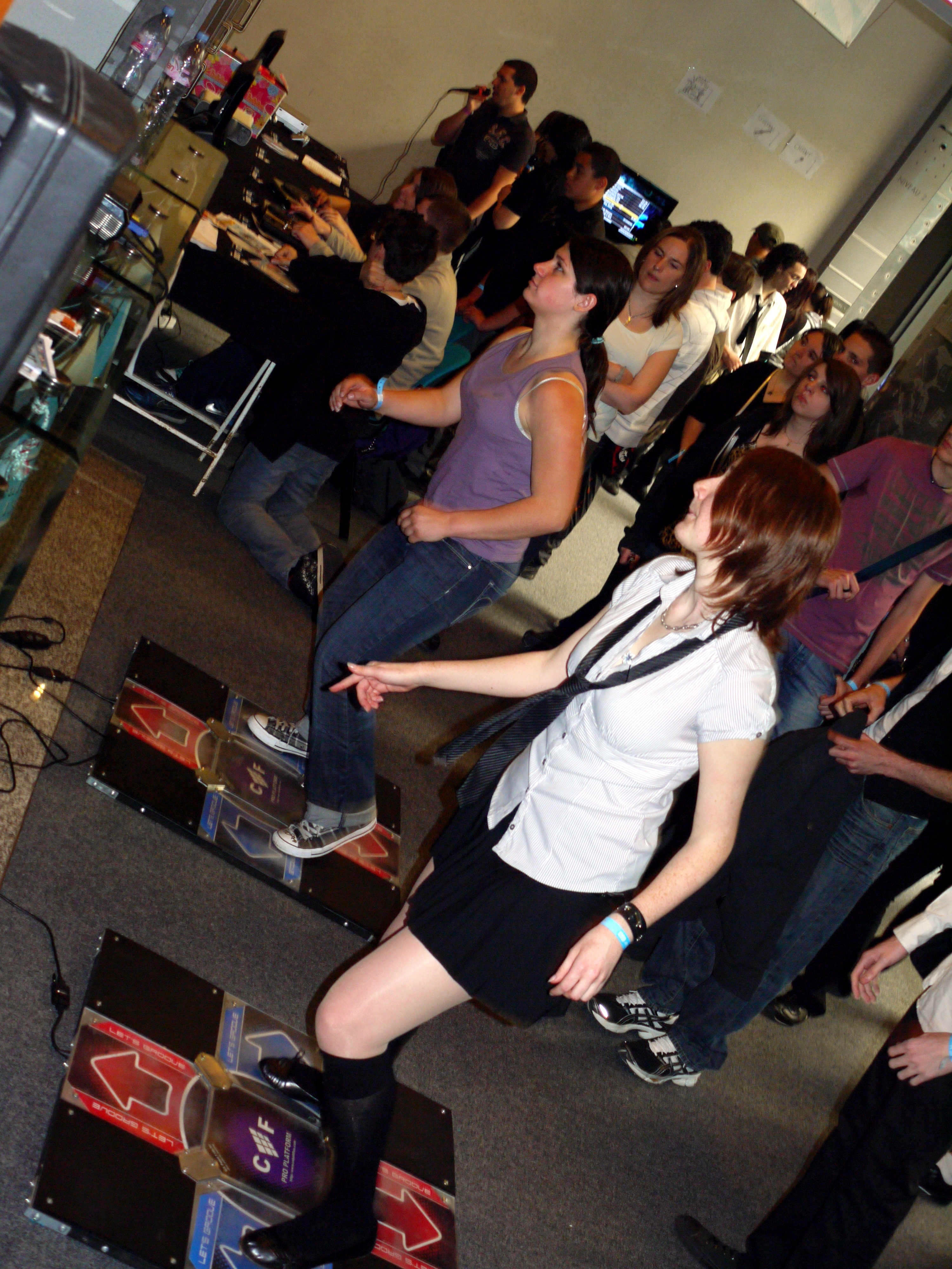 Mang'Azur festival of Toulon - official site